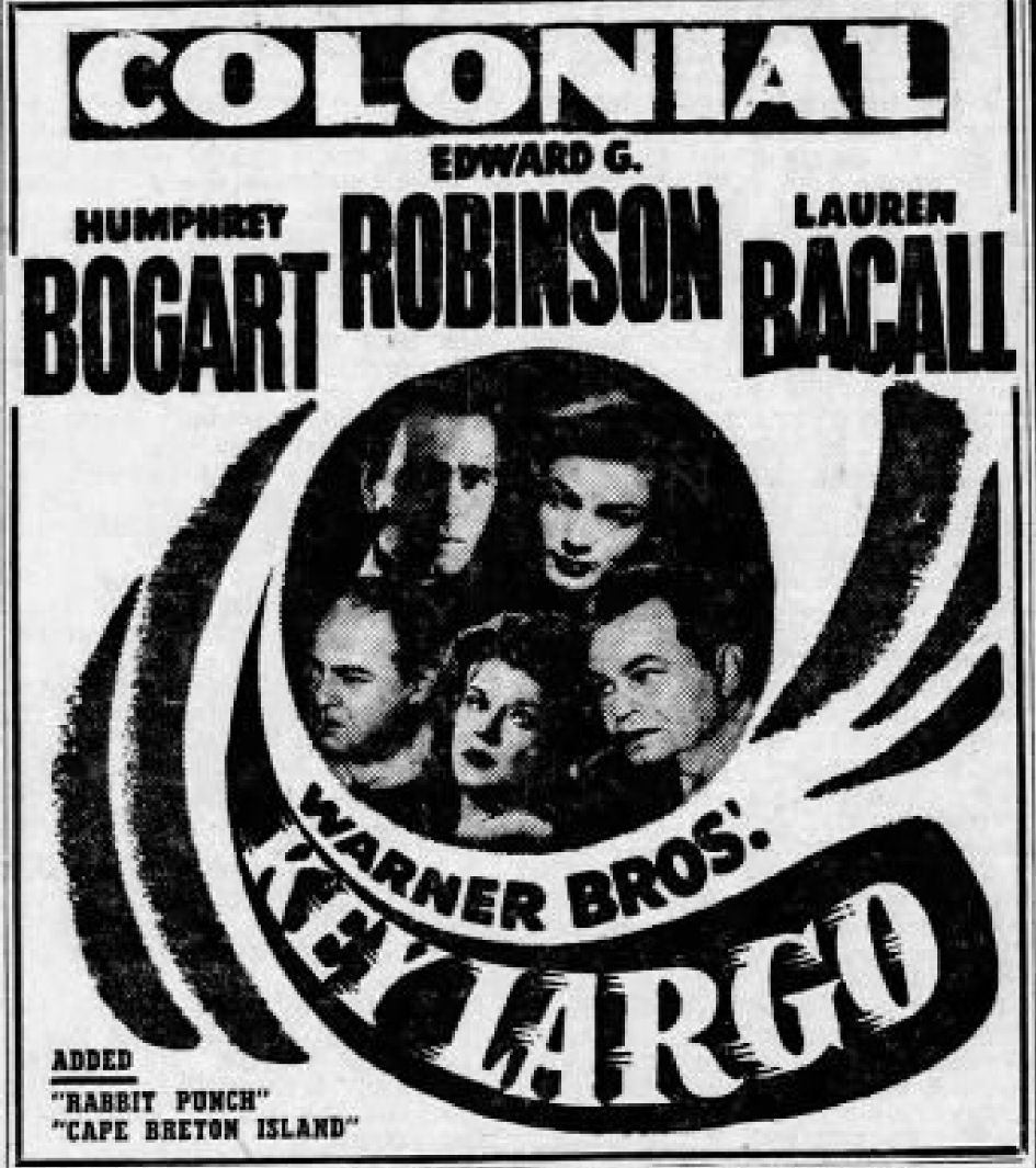 Colonial Theater advertisement for the American film Key Largo (1948) - 1 Sep. 1948 Morning Call, Allentown PA